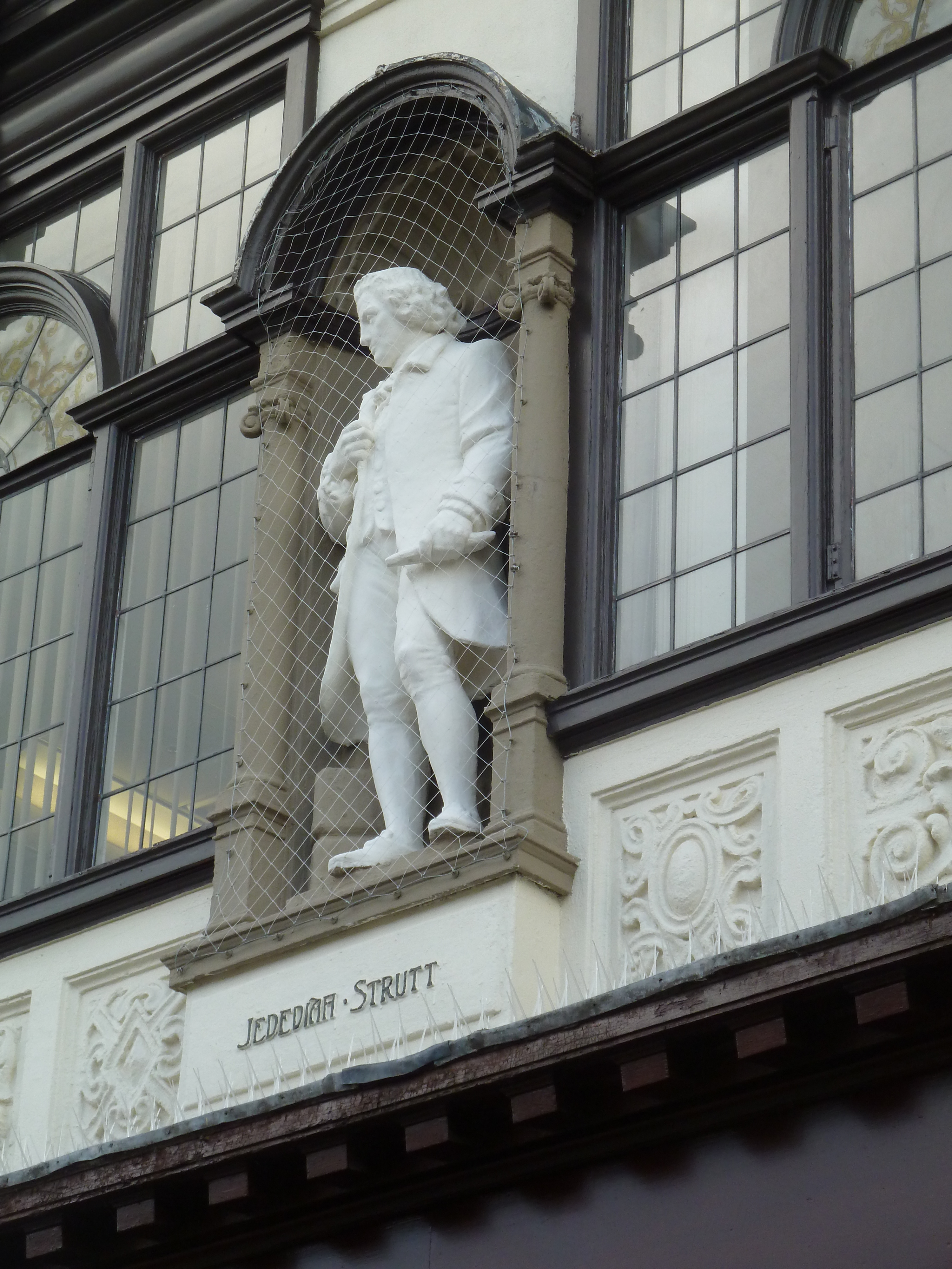 Boots Building. East Street, Derby Statue of Jedediah Strutt (1726-1797) English hosier and cotton spinner